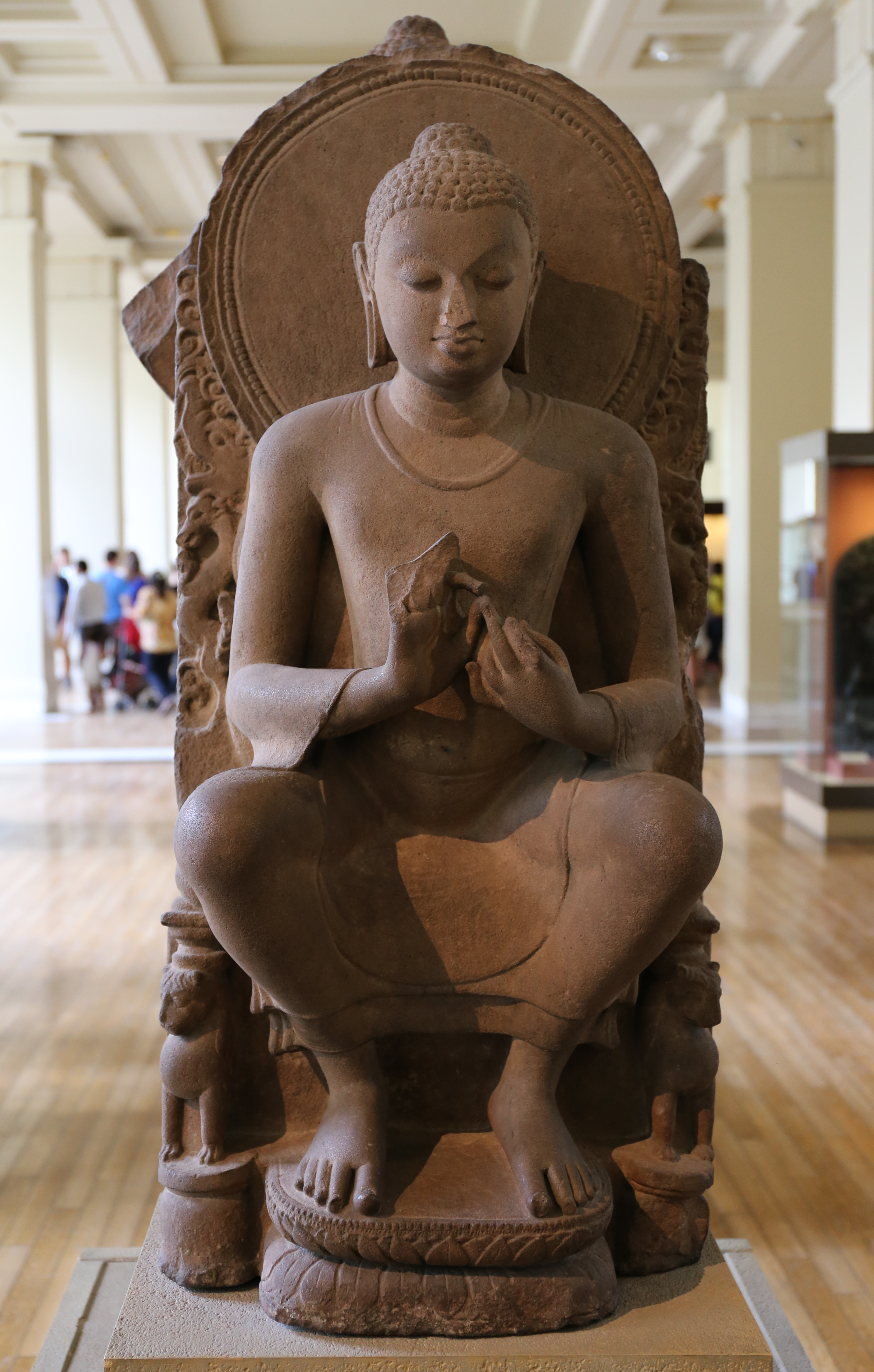 Seated Buddha. From Sarnath. Buddha is seated on a throne flanked by lions. His hands are held in the gesture of teaching, dharmachakramudra.